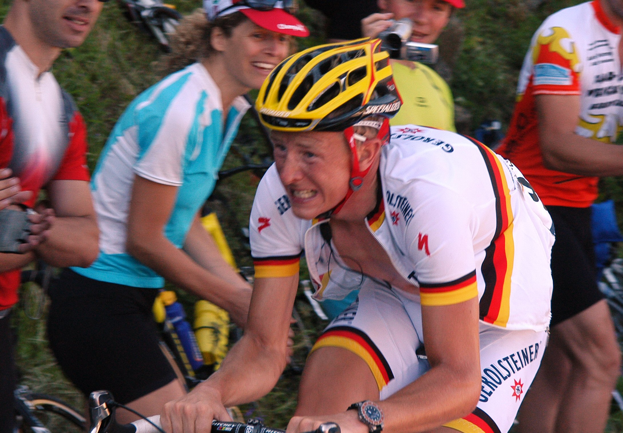 Fabian Wegmann at stage 7 of the Tour de France 2007 on the Col de la Colombière.